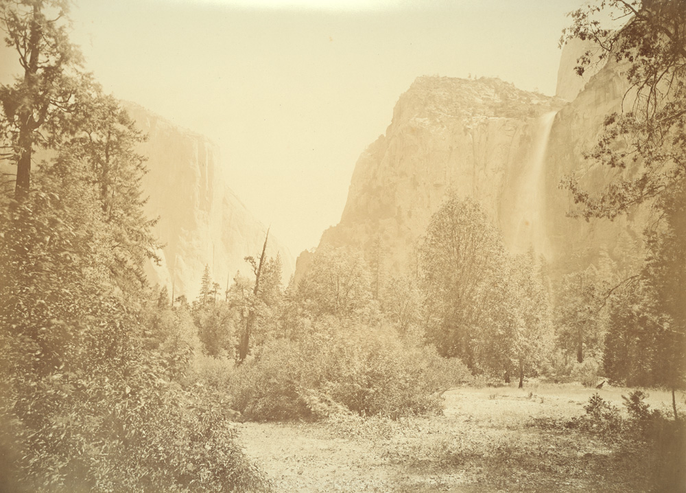 An album by Carleton E Watkins (1829-1916), one of the finest American landscape photographers of the nineteenth century.